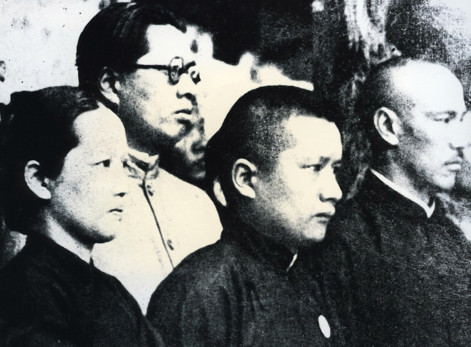 Soong Ching-ling, Soong Tse-ven, Soong Tse-an and Chiang Kai-shek in Sun Yat-sen's Fengan Ceremony